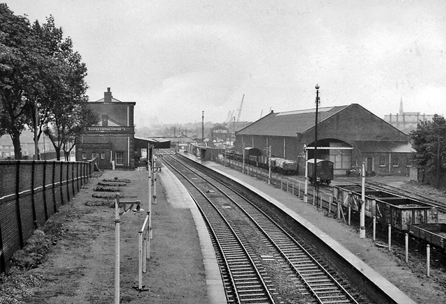 Bilston Central Station. Near to Bilston, Wolverhampton, Great Britain. View SE, towards Birmingham (Snow Hill); Birmingham (Snow Hill) - Wolverhampton (Low Level) - Shrewsbury etc. Main (ex-GWR) line. The station (plain 'Bilston' until 19/7/50) and line closed (Birmingham - Wolverhampton) on 6/3/72. However it is now (since 1999) a stop on the new Midland Metro. (When this photograph was taken in 1962, the Goods station, surrounded by factories, was still very active).